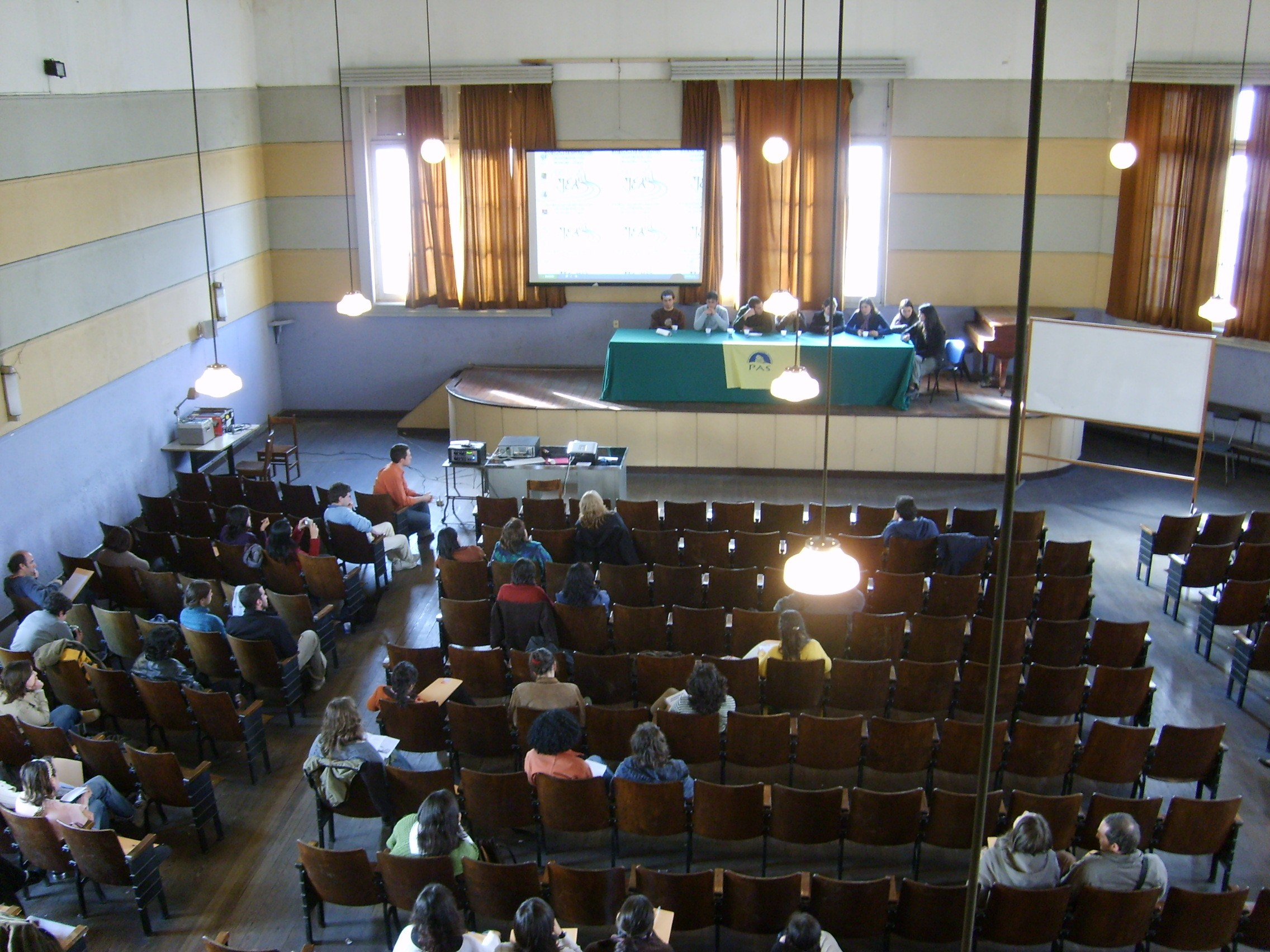 Carlos Vaz Ferreira Aula of the Faculty of Humanities and Education (University of the Republic).